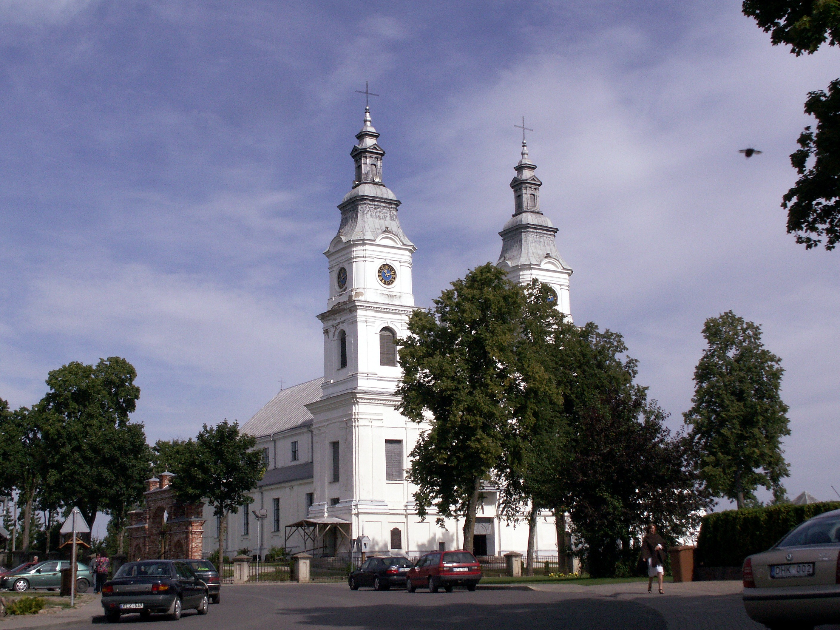 Žemaičių Kalvarija, Plungė district, Lithuania